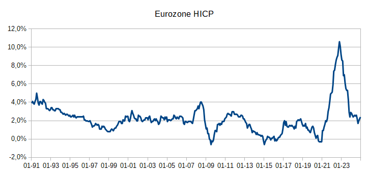 Headline CPI in the Eurozone; source: website ECB, query ICP.M.U2.N.000000.4.ANR.